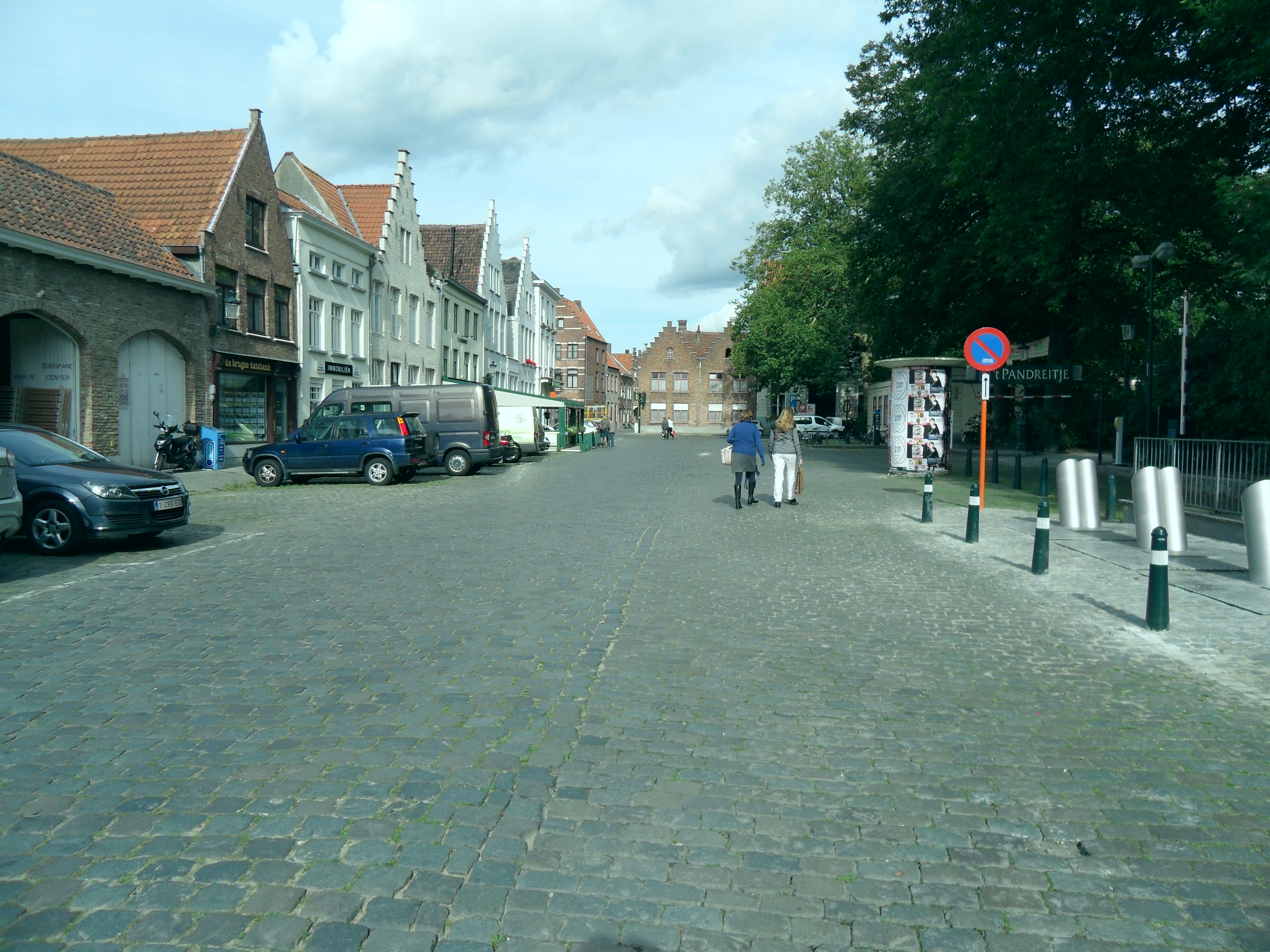 Park, Brugge